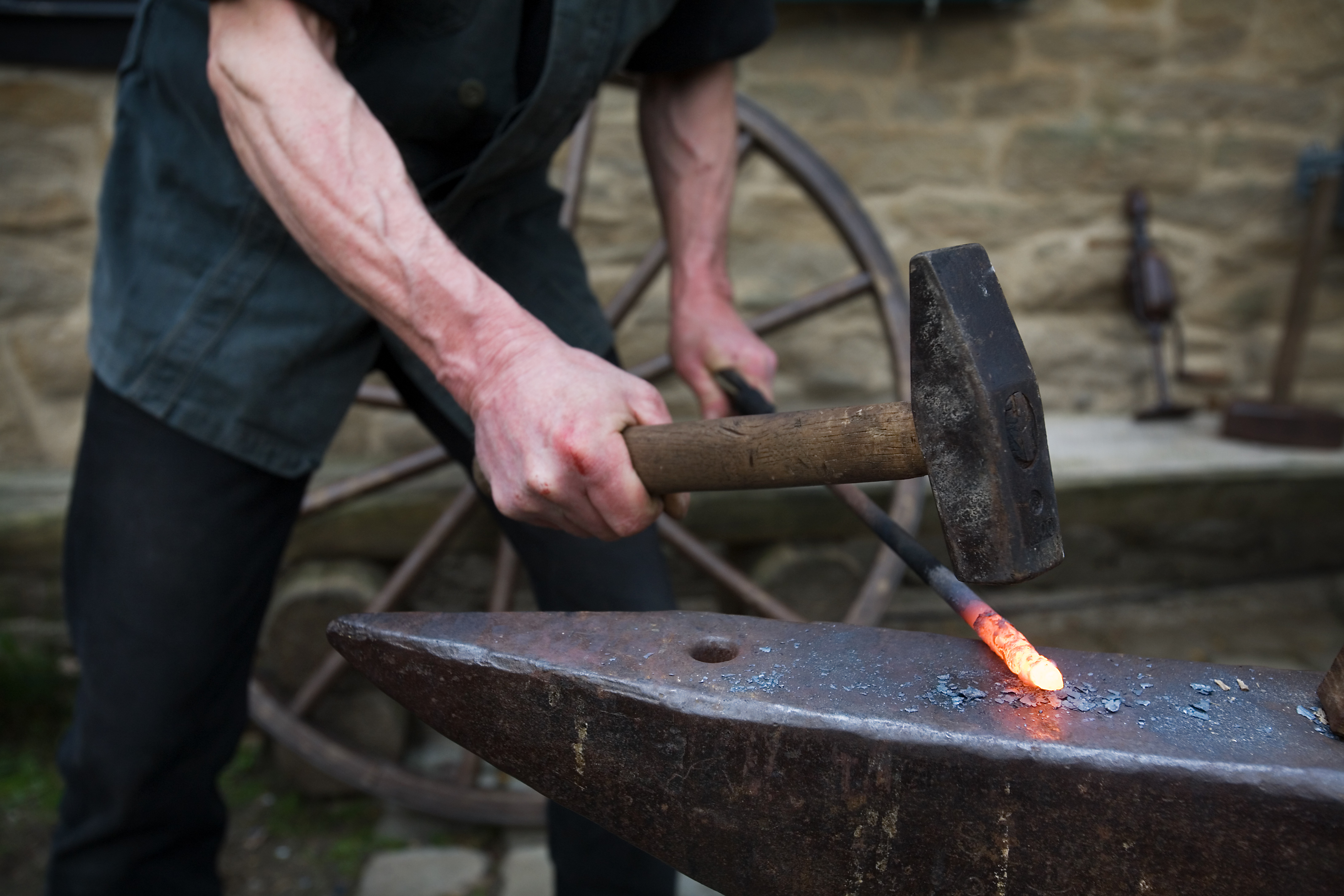 Vintage smith's workshop and tools, Germany